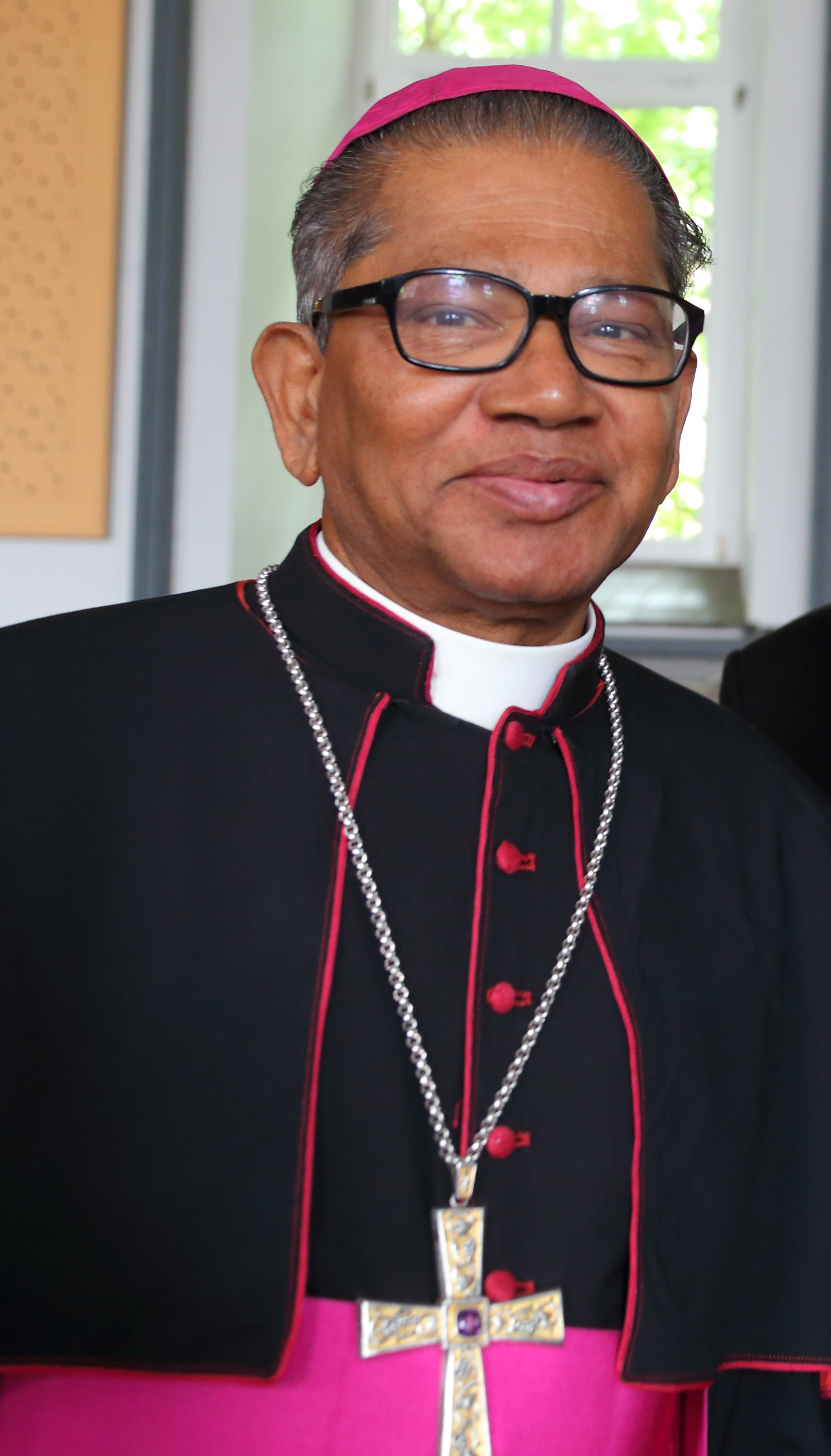 Archbishop Thumma Bala, Archbishop of Hyderabad, India, during a stay in Recke, Kreis Steinfurt, North Rhine-Westphalia, Germany. The Archbishop then visited one of the priests of his Diocese, Father Gnana Prakasham Chinnabathini, who at the time served in the St Dionysius Parish Recke.